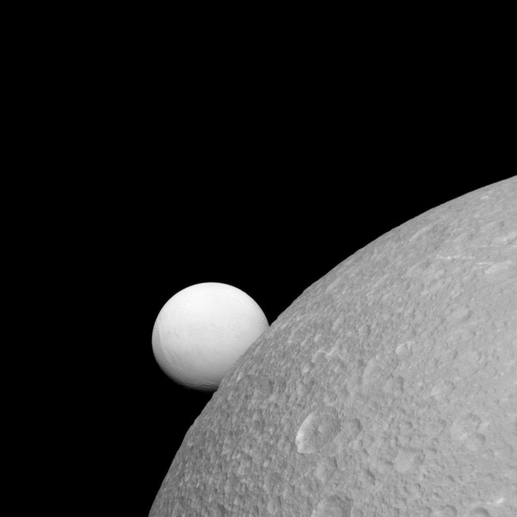 PIA18345: A Brighter Moon Although Dione (near) and Enceladus (far) are composed of nearly the same materials, Enceladus has a considerably higher reflectivity than Dione. As a result, it appears brighter against the dark night sky. The surface of Enceladus (313 miles or 504 kilometers across) endures a constant rain of ice grains from its south polar jets. As a result, its surface is more like fresh, bright, snow than Dione's (698 miles or 1123 kilometers across) older, weathered surface. As clean, fresh surfaces are left exposed in space, they slowly gather dust and radiation damage and darken in a process known as "space weathering." This view looks toward the leading hemisphere of Enceladus. North on Enceladus is up and rotated 1 degree to the right. The image was taken in visible light with the Cassini spacecraft narrow-angle camera on Sept. 8, 2015. The view was acquired at a distance of approximately 52,000 miles (83,000 kilometers) from Dione. Image scale is 1,600 feet (500 meters) per pixel. The distance from Enceladus was 228,000 miles (364,000 kilometers) for an image scale of 1.4 miles (2.2 kilometers) per pixel. The Cassini mission is a cooperative project of NASA, ESA (the European Space Agency) and the Italian Space Agency. The Jet Propulsion Laboratory, a division of the California Institute of Technology in Pasadena, manages the mission for NASA's Science Mission Directorate, Washington. The Cassini orbiter and its two onboard cameras were designed, developed and assembled at JPL. The imaging operations center is based at the Space Science Institute in Boulder, Colorado. For more information about the Cassini-Huygens mission visit and The Cassini imaging team homepage is at